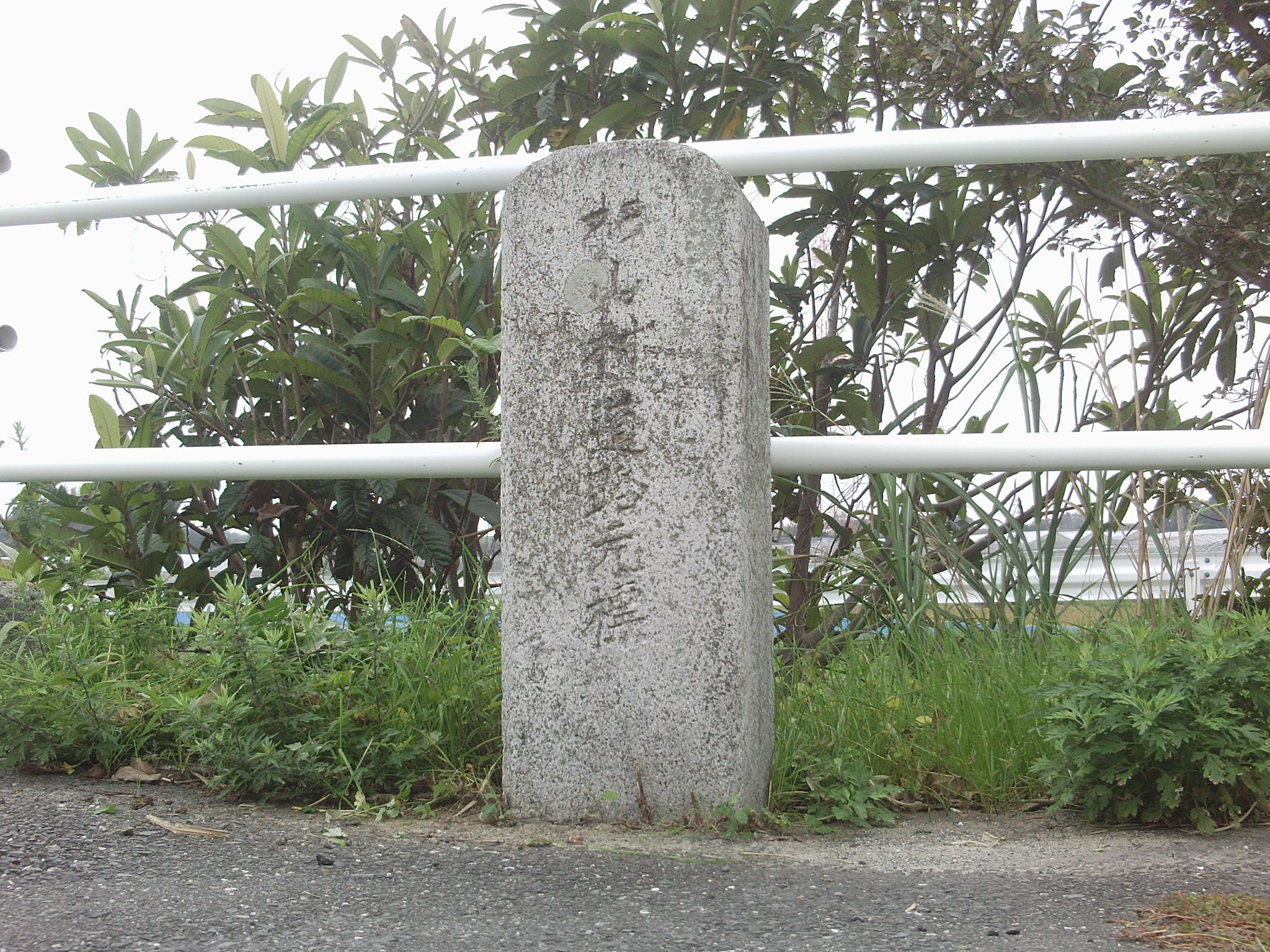 Kilometre zero of Sugiyama village. (Sugiyama village, Atsumi-gun, Aichi.)